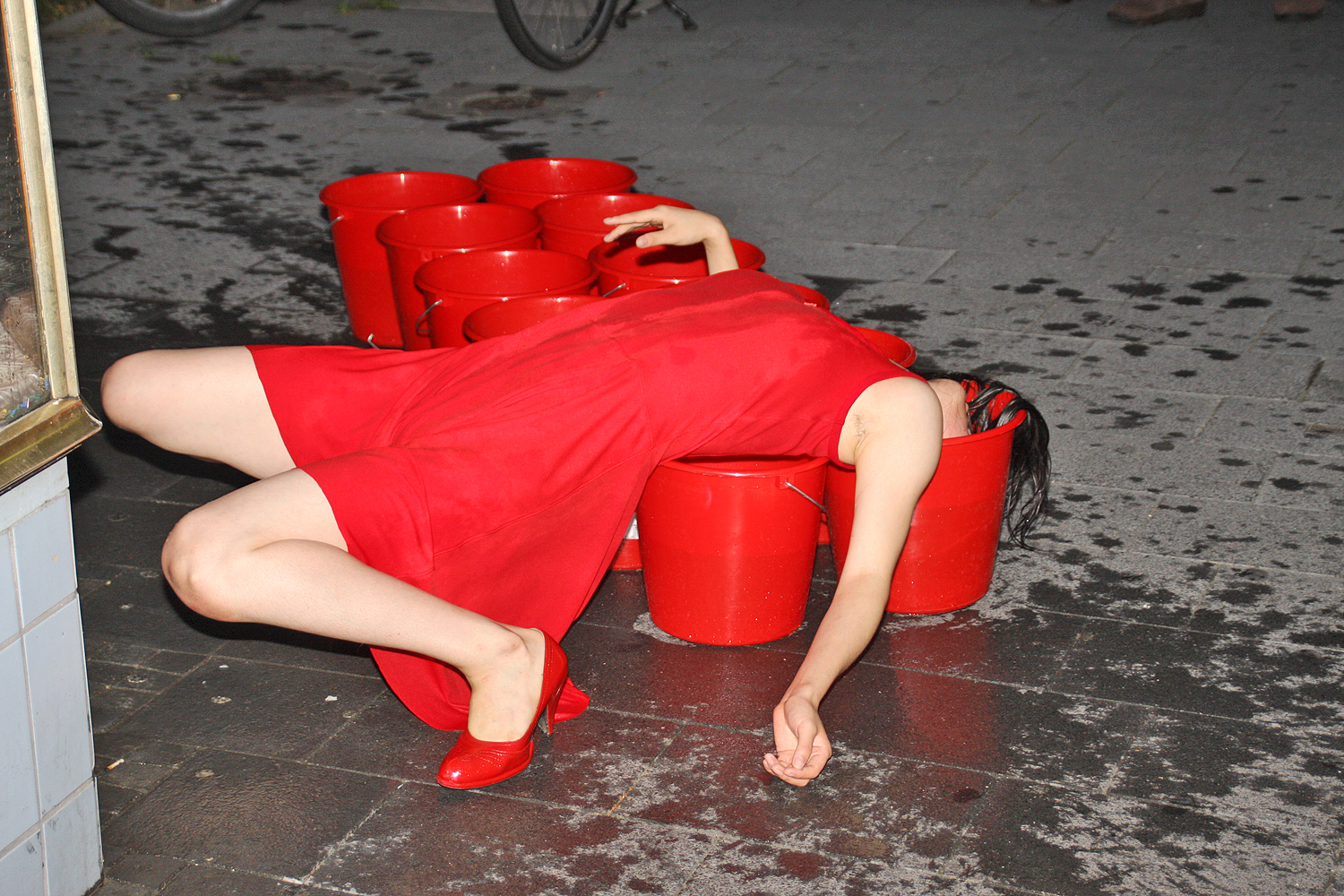 An art performance in Cologne by Angie Hiesl